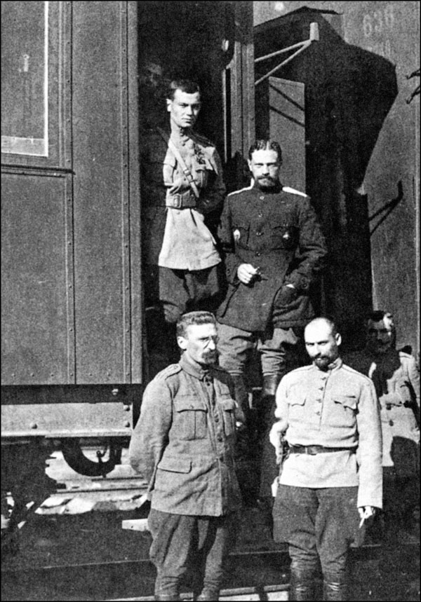 Kappel in 1919